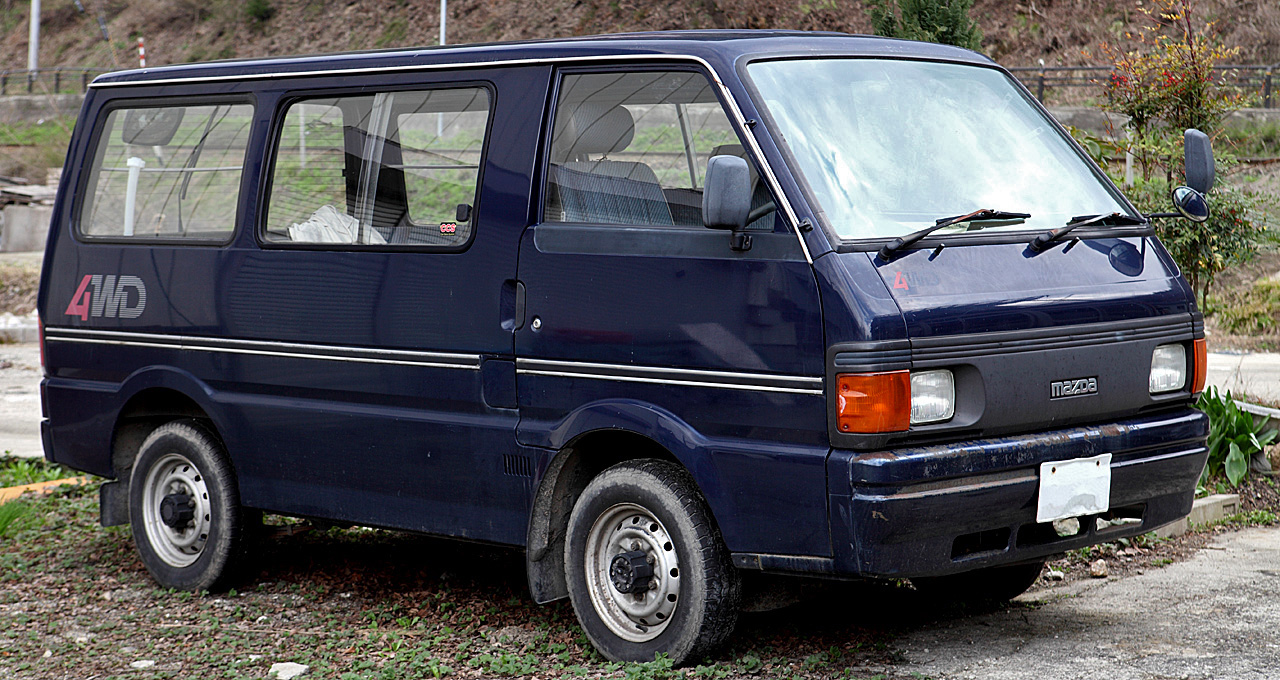 Third generation Mazda Bongo Van 4WD ( Type SS )